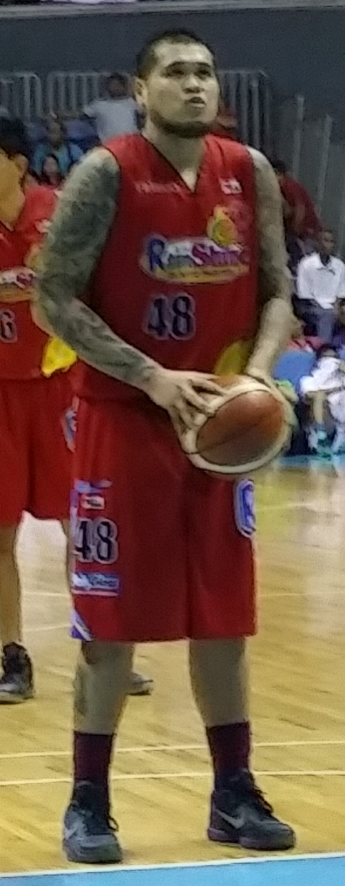 PBA - Rain or Shine vs San Miguel - JR Quinahan-ROS - 2016-0107